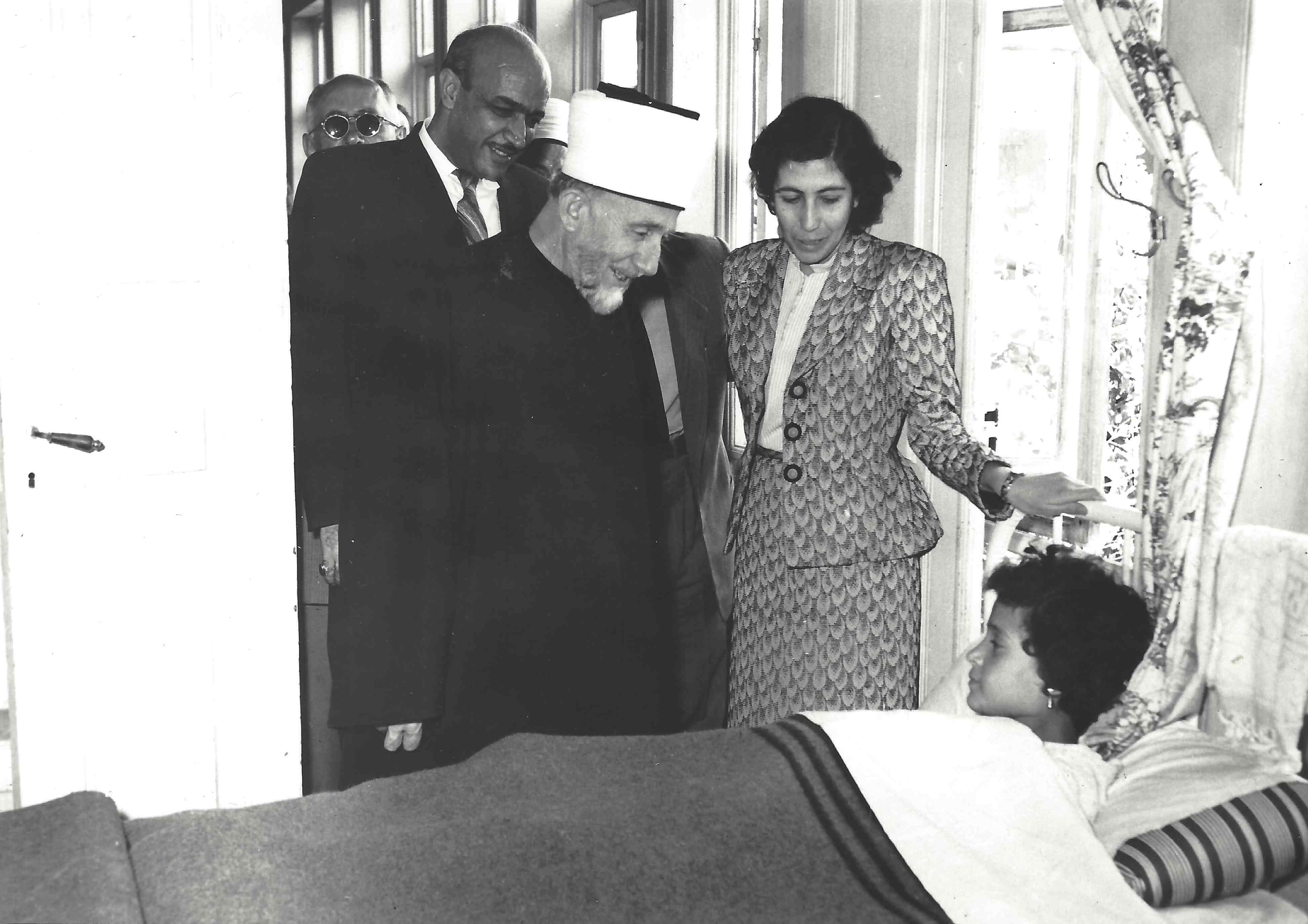 The Mufti of Palestine Haji Amin al-Husseini and Mohammed Asaad Talas in a visit to a school of the sons of Palestinian martyrs in Syria on 14 October 1956